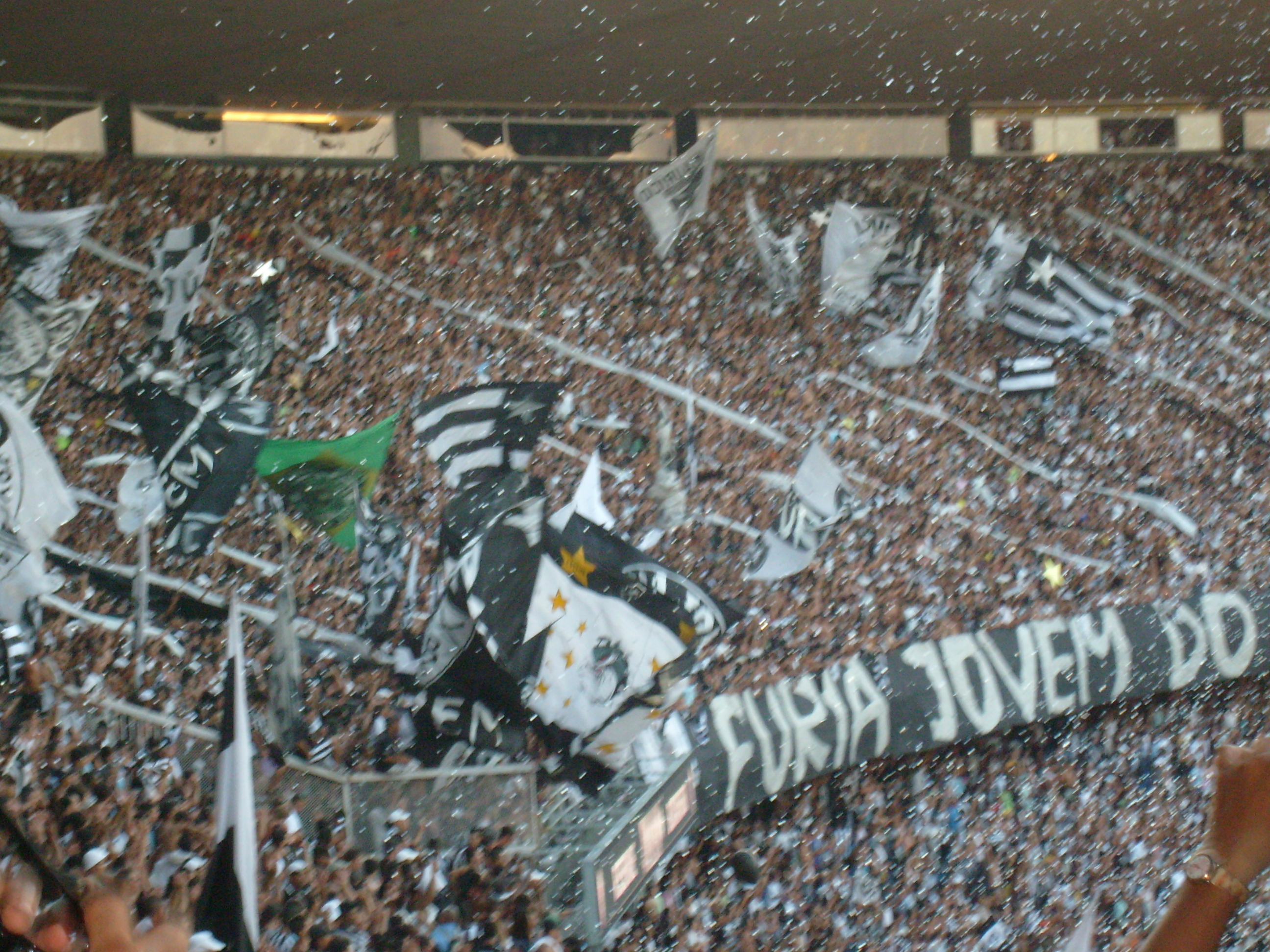 Fans of Botafogo de Futebol e Regatas, at Maracanã, during 2009 Taça Guanabara's final. Botafogo 3-0 Resende.